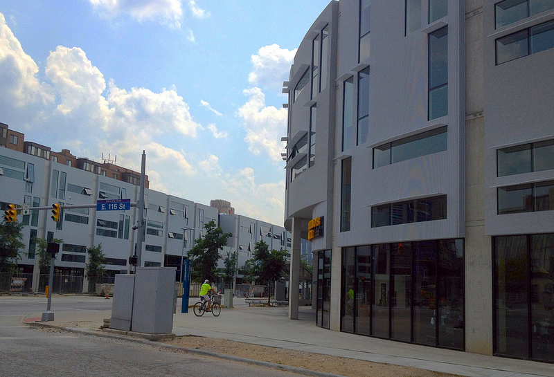 Cleveland Uptown Apartments on Euclid Ave and E. 115 in University Circle.